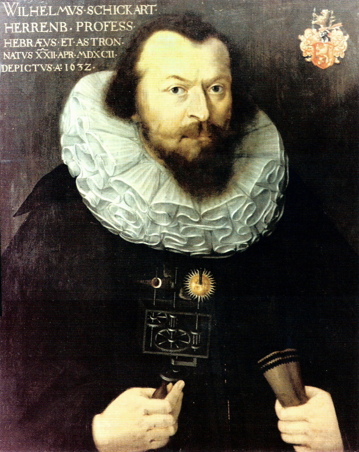 Portrait of Wilhelm Schickard at Tübingen University